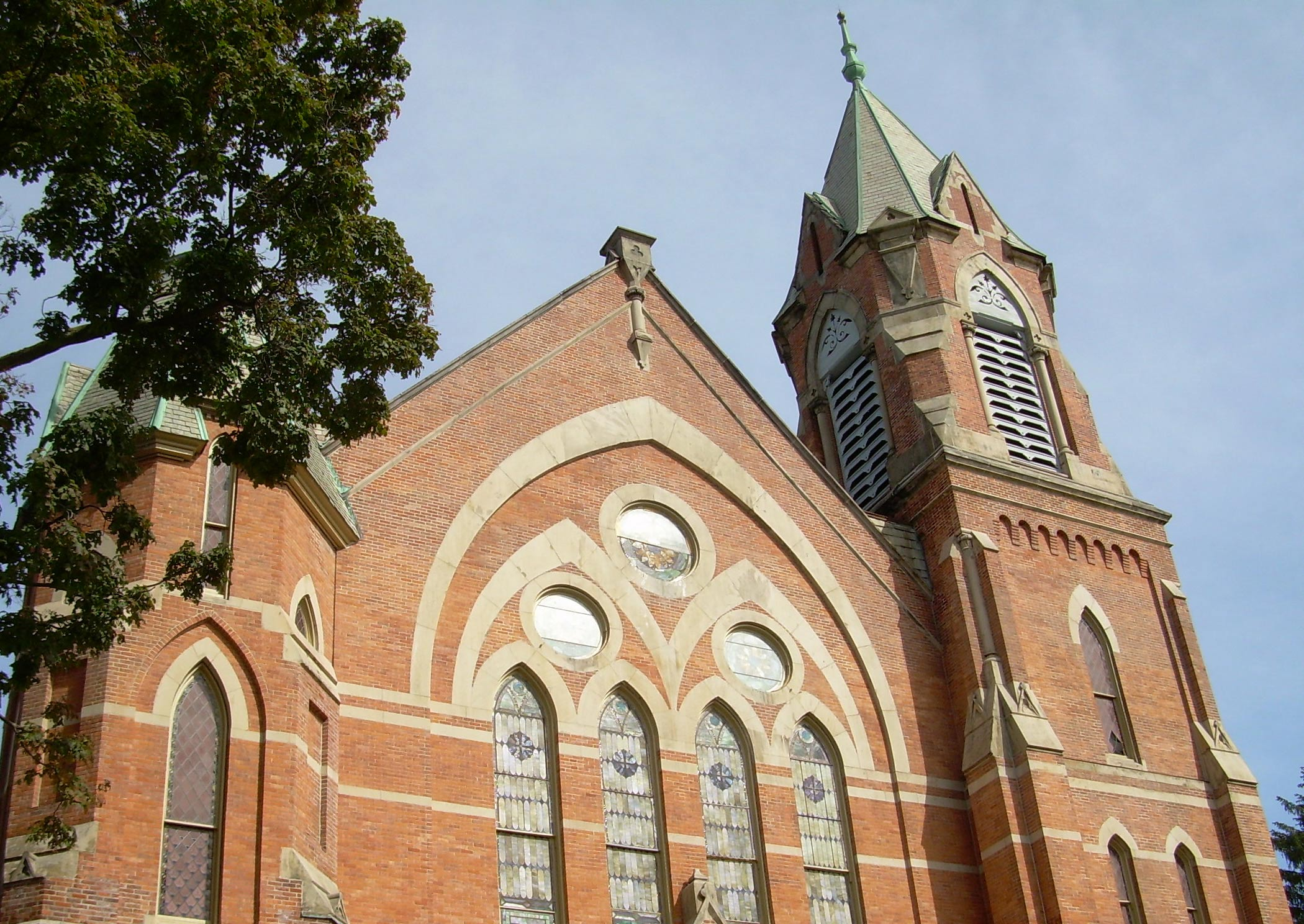 I took this picture.